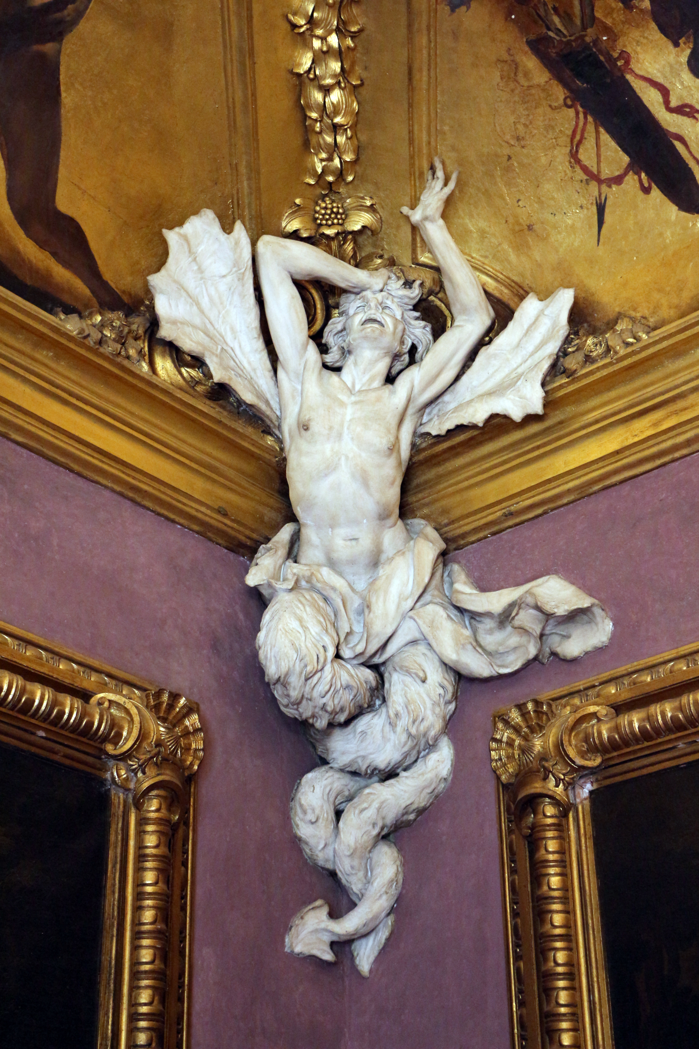 Sala della Guerra in Palazzo Fenzi